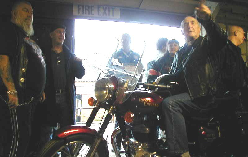 Father Graham Hullet of the 59 Club and other original members of the 59 Club and Road Rats MC.